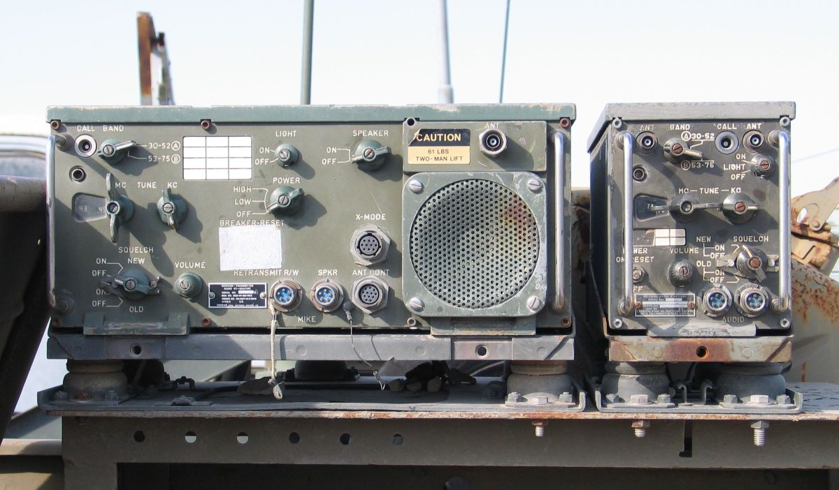 Description: RT-524 reciever-transmitter and R-442 reciever in Yad la-Shiryon Museum, Israel. 2005. Source: Photo by me, User:Bukvoed